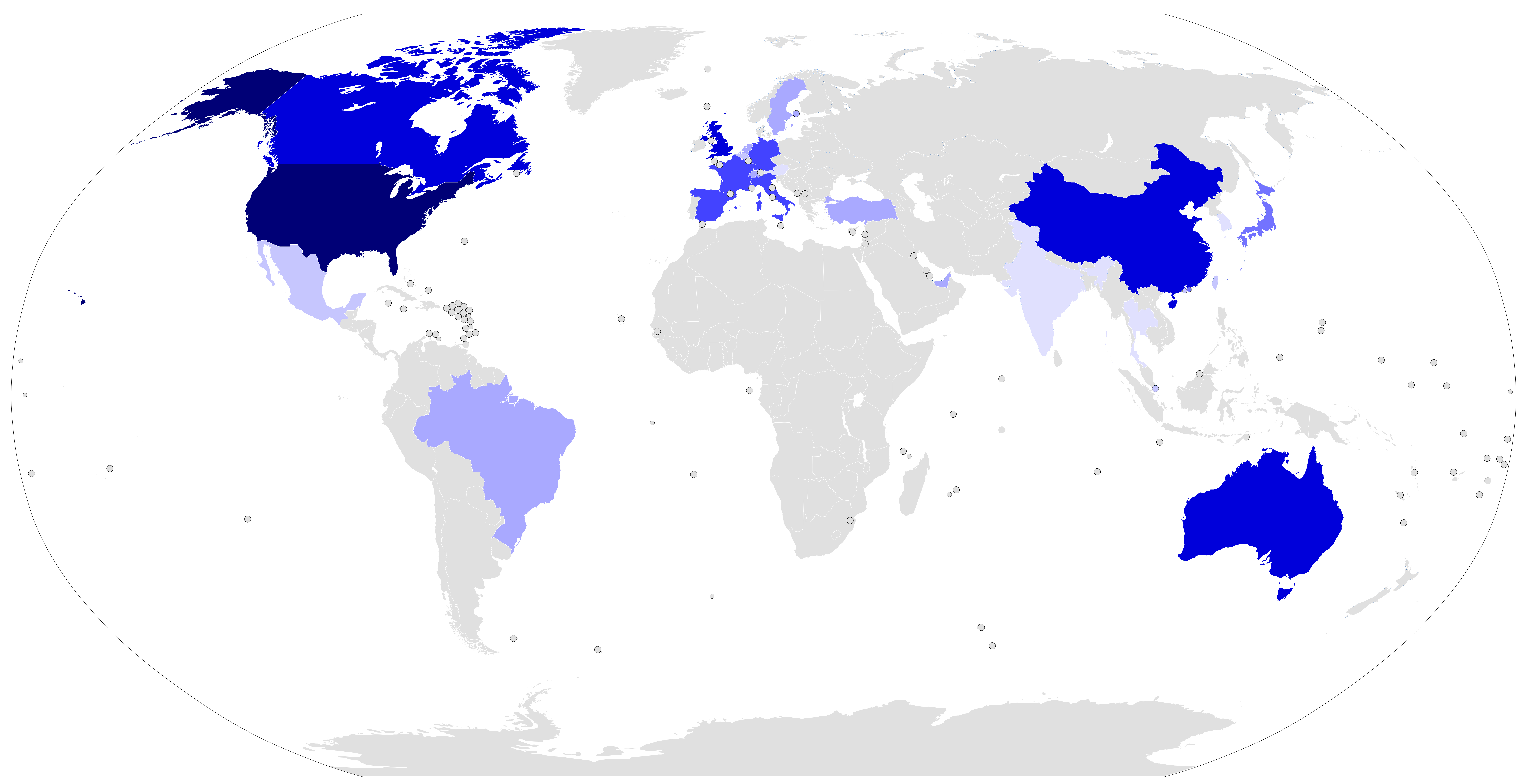 Map of Apple Retail Stores